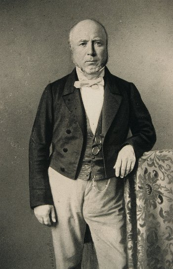 Paul Emile Remy Martin. A press image for Louis XIII de Rémy Martin